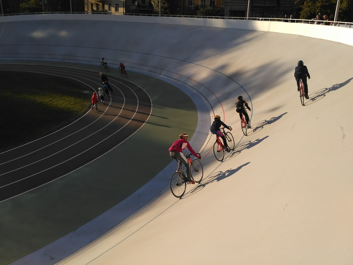 Kyiv velodrome, Oct 2017